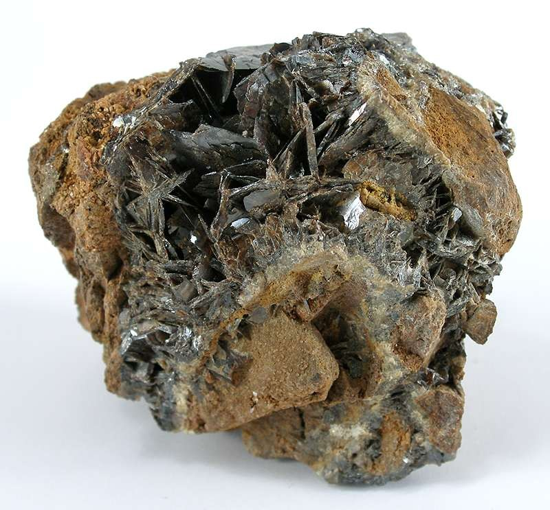 Nadorite Locality: Djebel Nador, Constantine Province, Algeria (Locality at ) Size: 4.1 x 3.8 x 3.2 cm. This is an extremely rich specimen of nadorite crystals from the type and best locality for the species, with color and metallic lustre. The crystals reach 1 cm in size and although many are broken or show portions, also there are many good crystals mixed in and the overall richness is significant. I am told that most of these were found during the French expeditionary times of the late 1800s and early 1900s, by the French colonial geological exploratory bureau BRGM (and have seen some such labels turn up on the market with nadorites, time to time, which confirms this). TYPE LOCALITY and the only locality for superb larger crystals of this species.